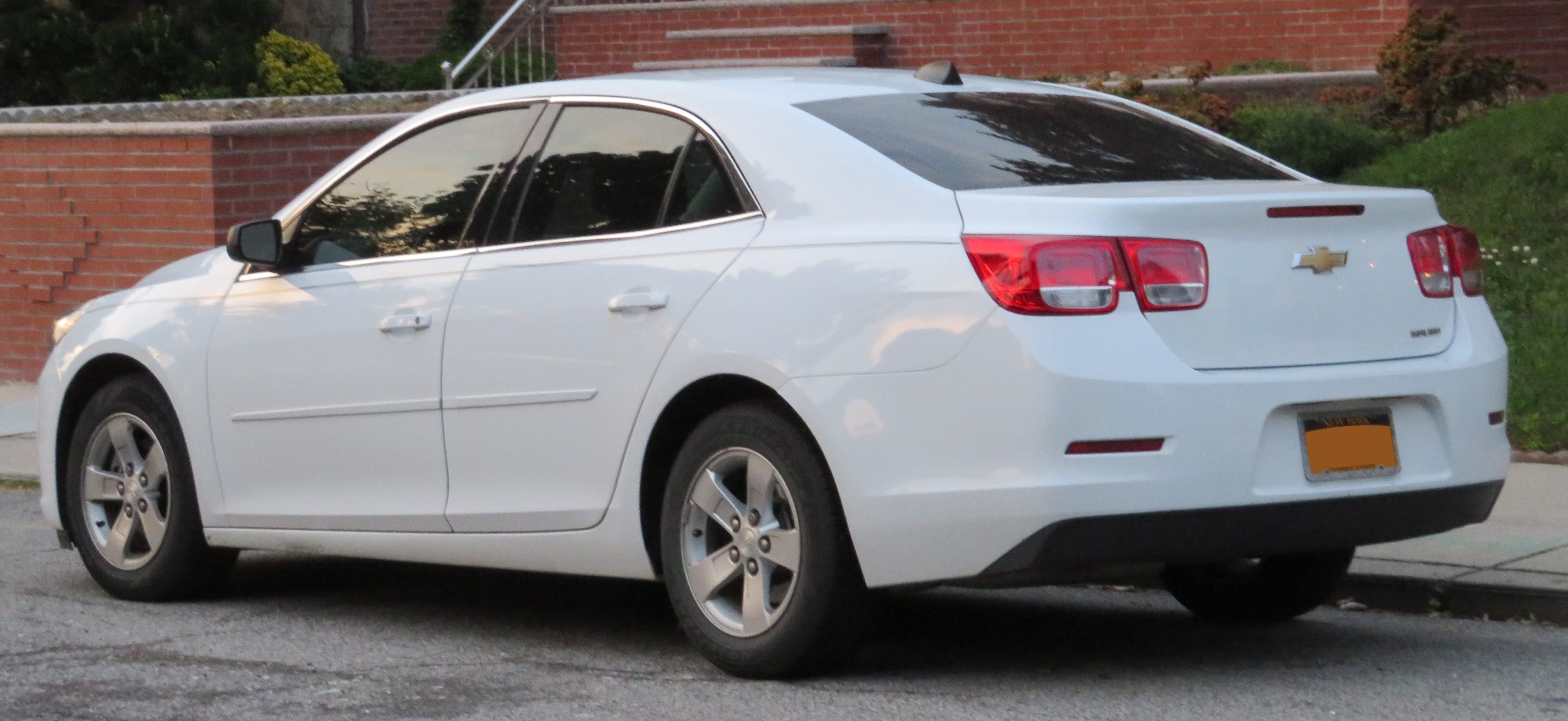 Photographed in Queens, New York